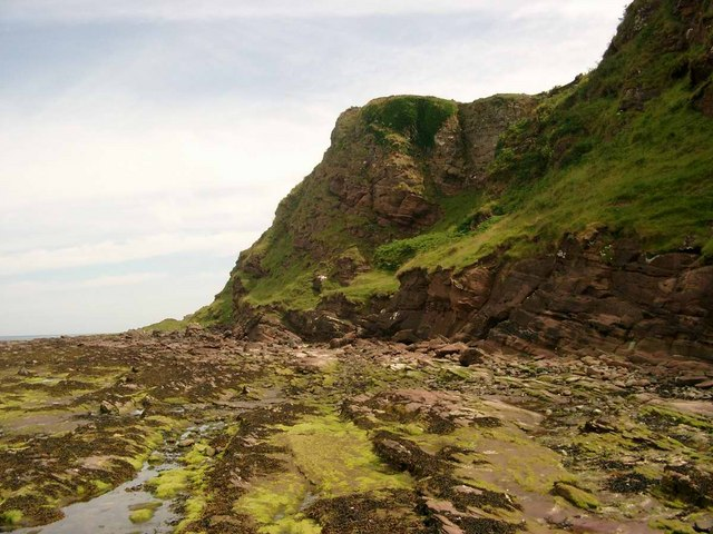 Foreshore of Sanda near Mull of Kintyre, Scotland